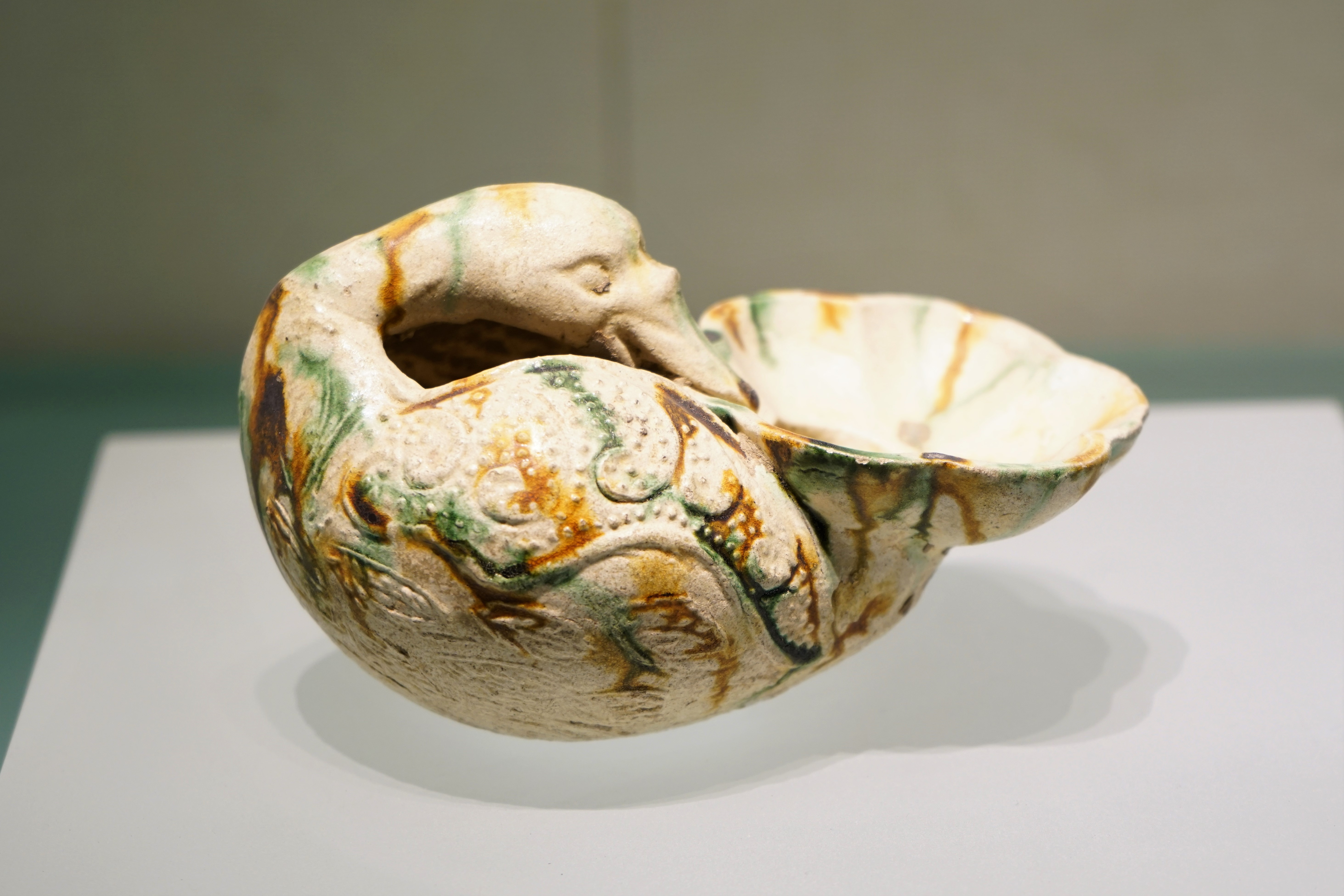 Tricolor Duck-Shaped Cup 三彩鸭形杯 Unearthed from Anxin County